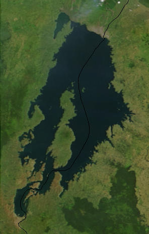 Lake Kivu, Africa, as seen from space. The black line marks the border between Rwanda and the Democratic Republic of the Congo. Cropped from a larger image (EAfrica.A2003033.0820.250m.jpg).